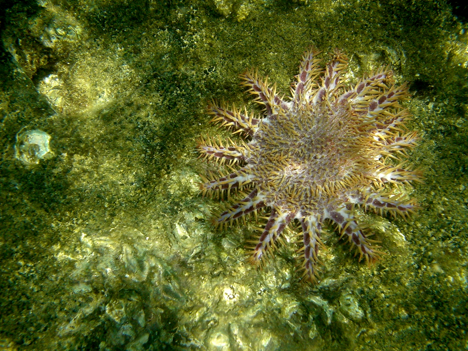 Crown-of-thorns starfish in Madagascar. Photograped by Brocken Inaglory